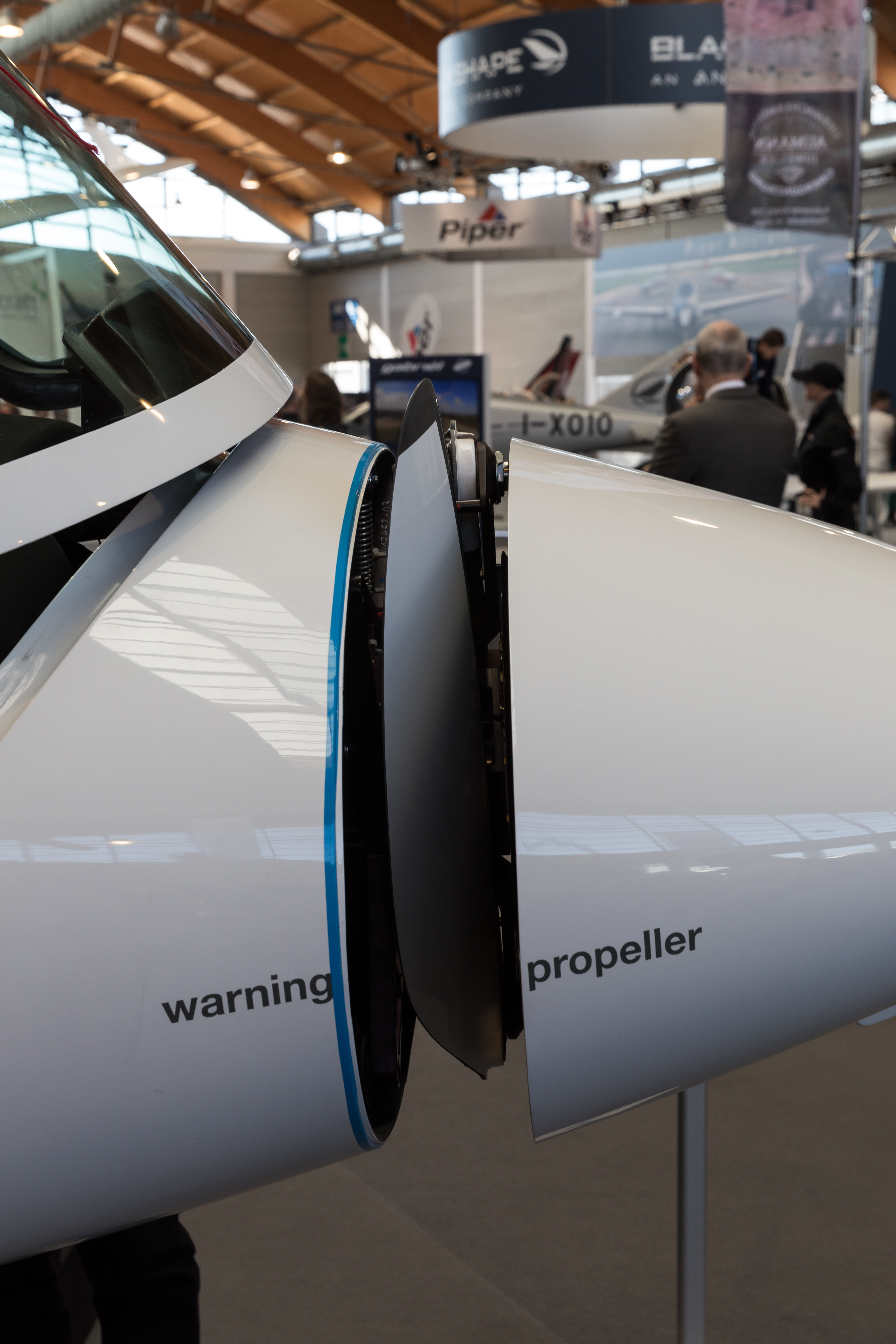 Stemme S12-G at AERO Friedrichshafen 2018